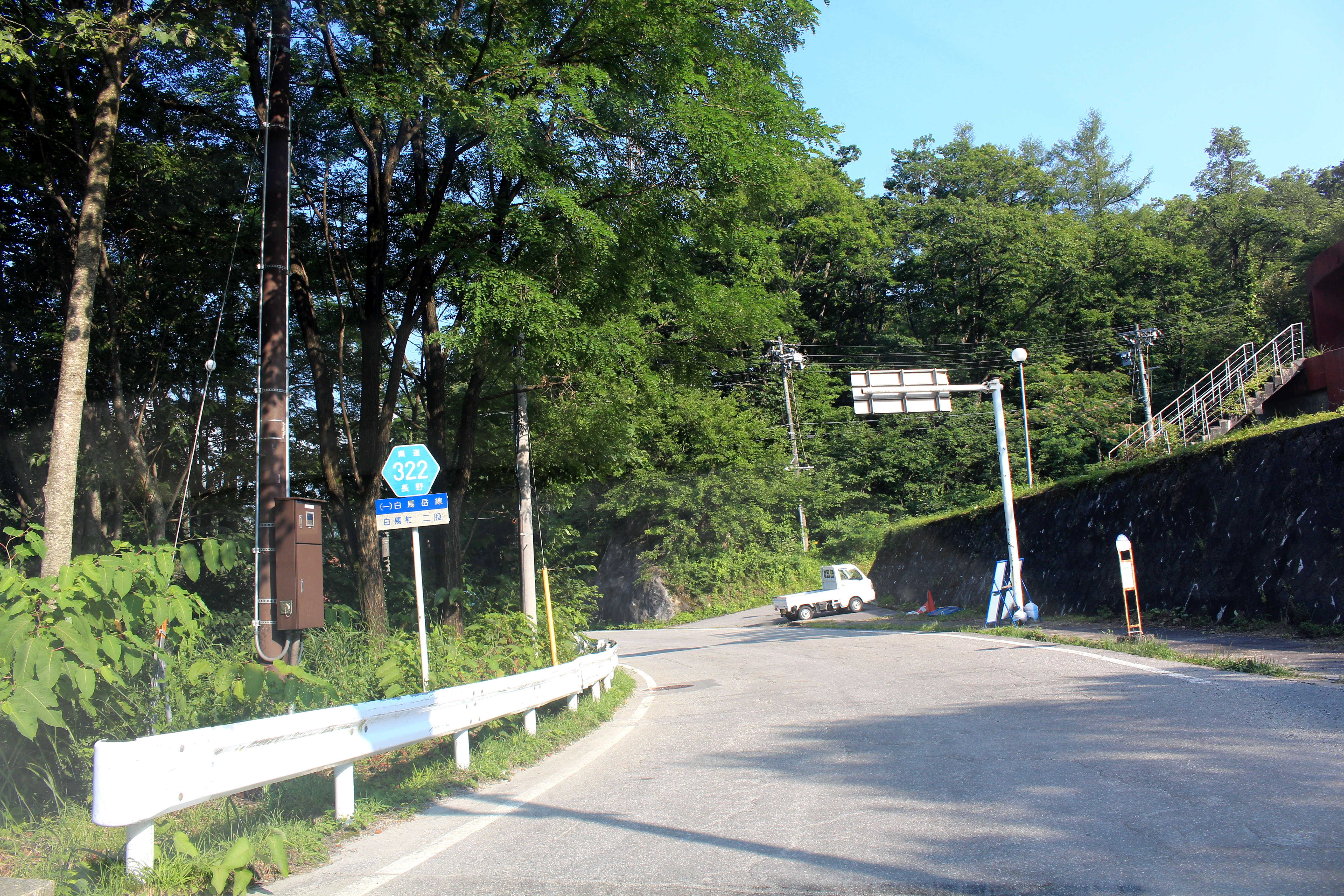 Nagano Prefectural Road Route 322, in Futamata, Hakuba, Nagano prefecture, Japan.